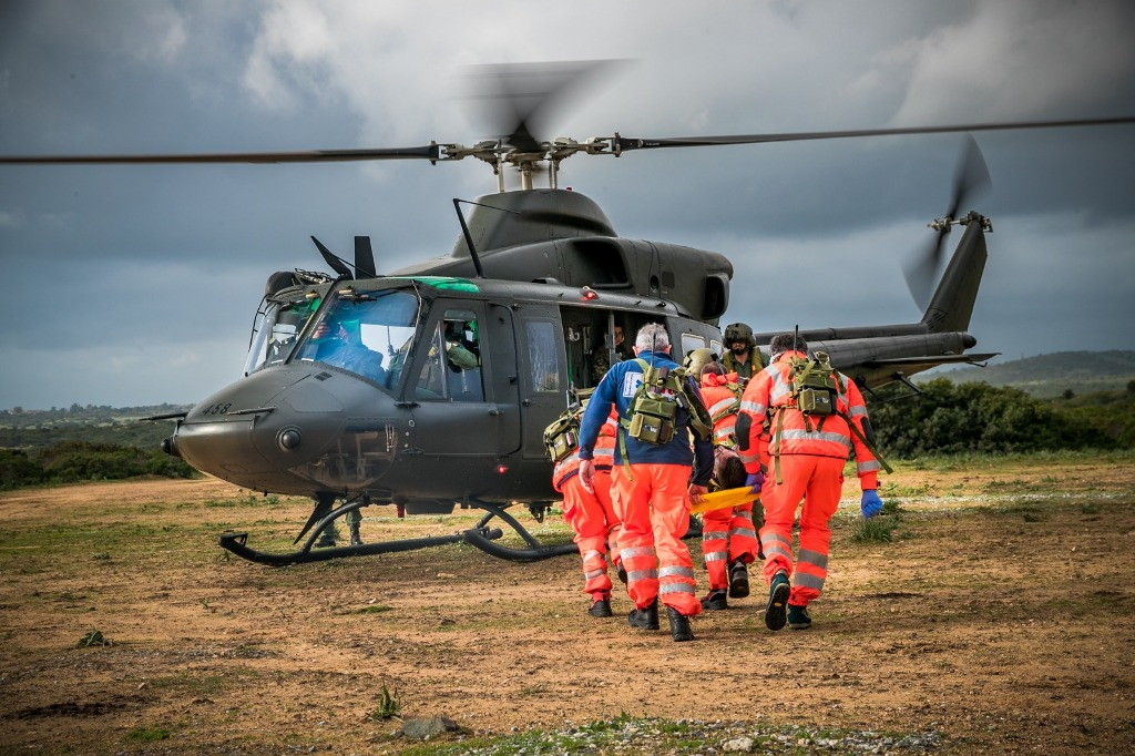 An Italian Army AB 412 helicopter of the 21st Squadrons Group "Orsa Maggiore" (2nd Army Aviation Regiment "Sirio") based in Sardinia during a civil protection exercise in 2019